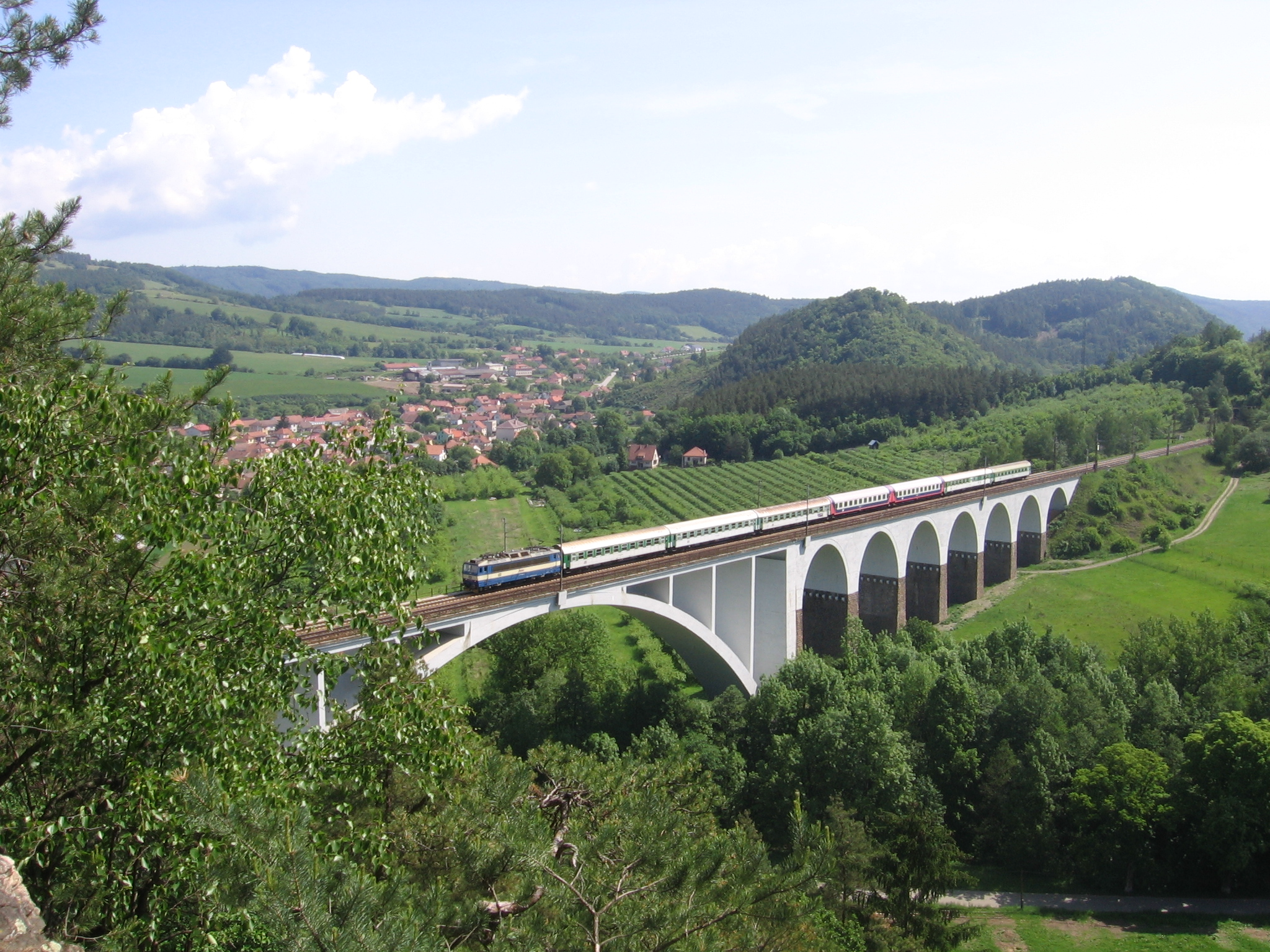 The bridge of peace near Dolní LoučkyEsperanto: La ponto de paco apud Dolní Loučky